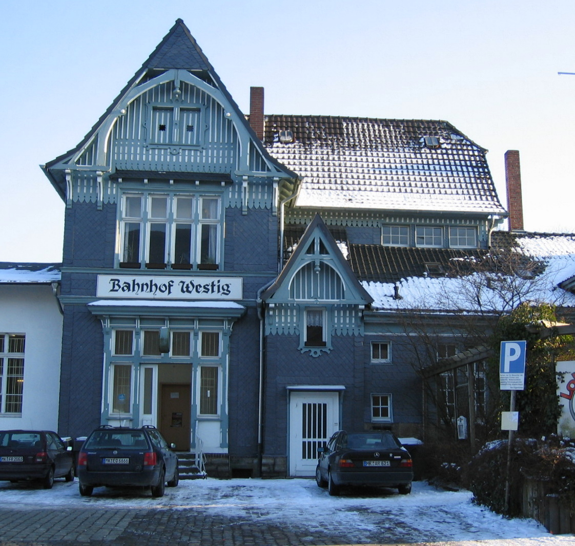 Entry area of the former railway station Hemer-Westig in Germany.